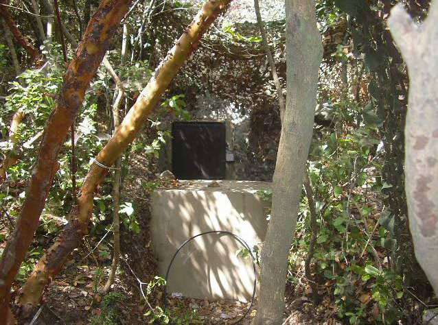 August 27, 2006 The Egoz Unit discovered bunkers built by Hezbollah in southern Lebanon, which were used for terror operations against Israel. Pictured: The door to the bunker (A concrete block sits in front of it).